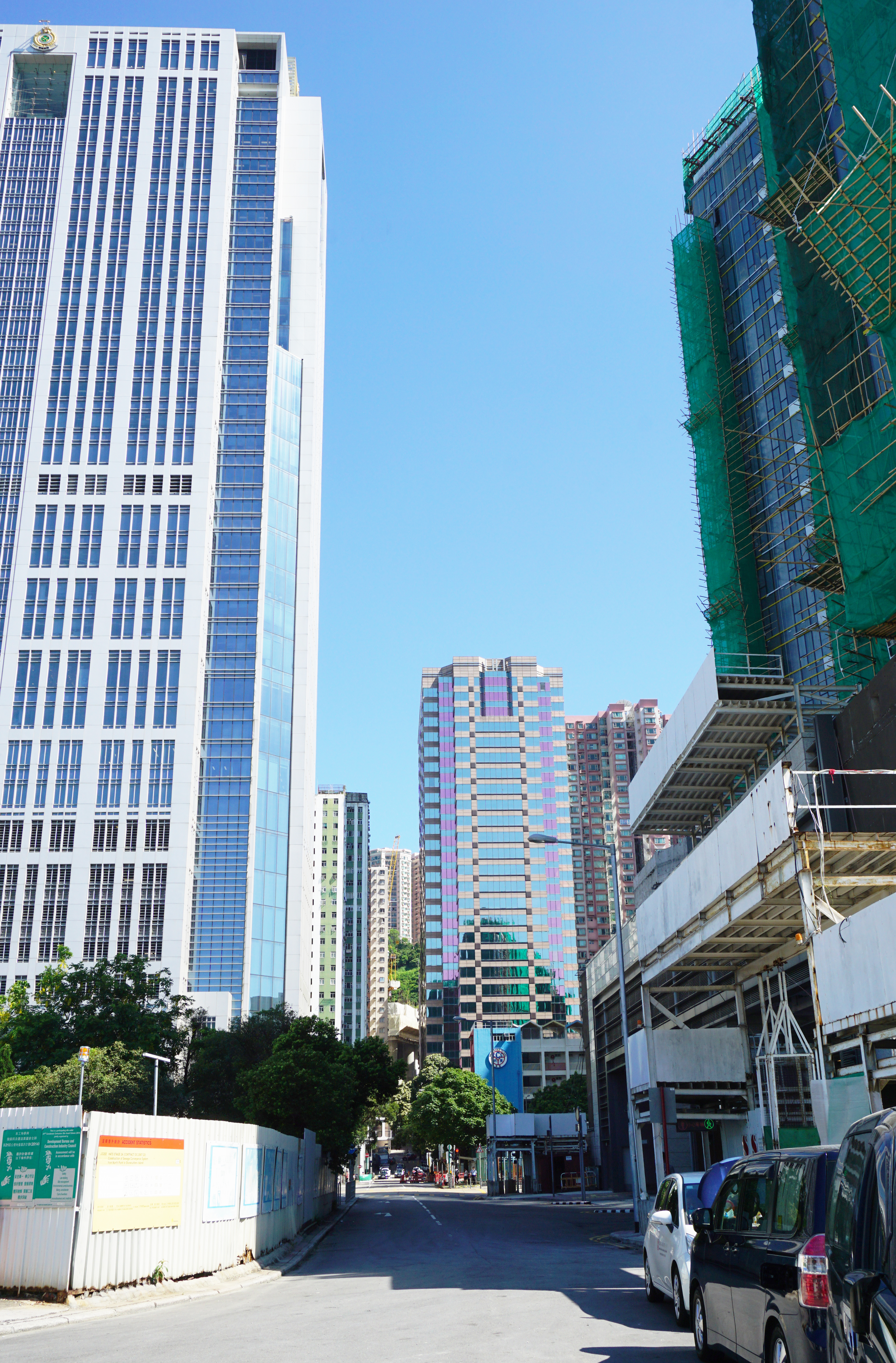 Tin Chiu Street in North Point, Hong Kong.